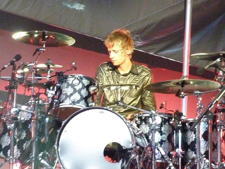 Dominic Howard on a gig at Stade De France 2010